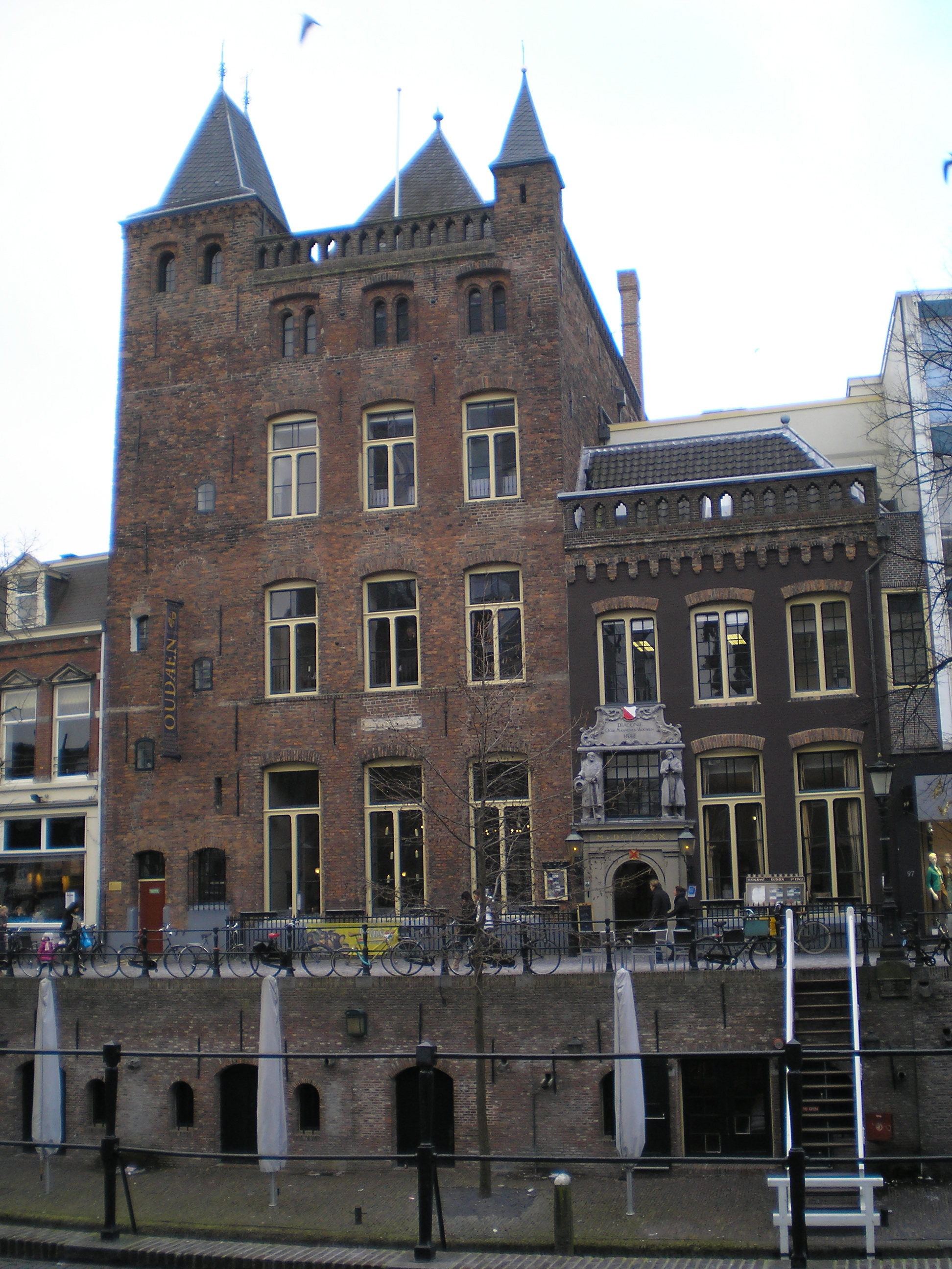 Oudegracht 99 in Utrecht in the Netherlands